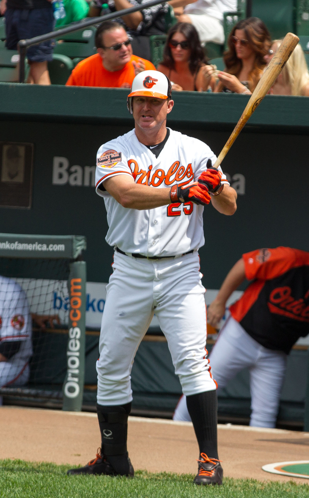 Jim Thome